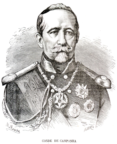 Baltazar de Almeida Pimentel, 1st Count of Campanhã (1771-1876)